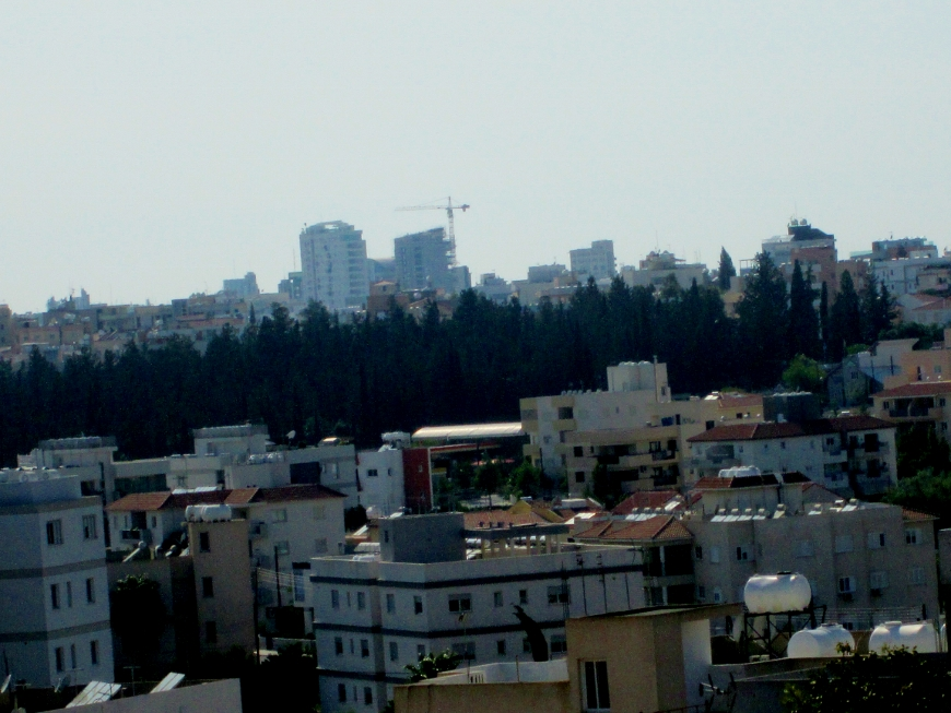 Nicosia new skyline from the hills of Nicosia Cyprus